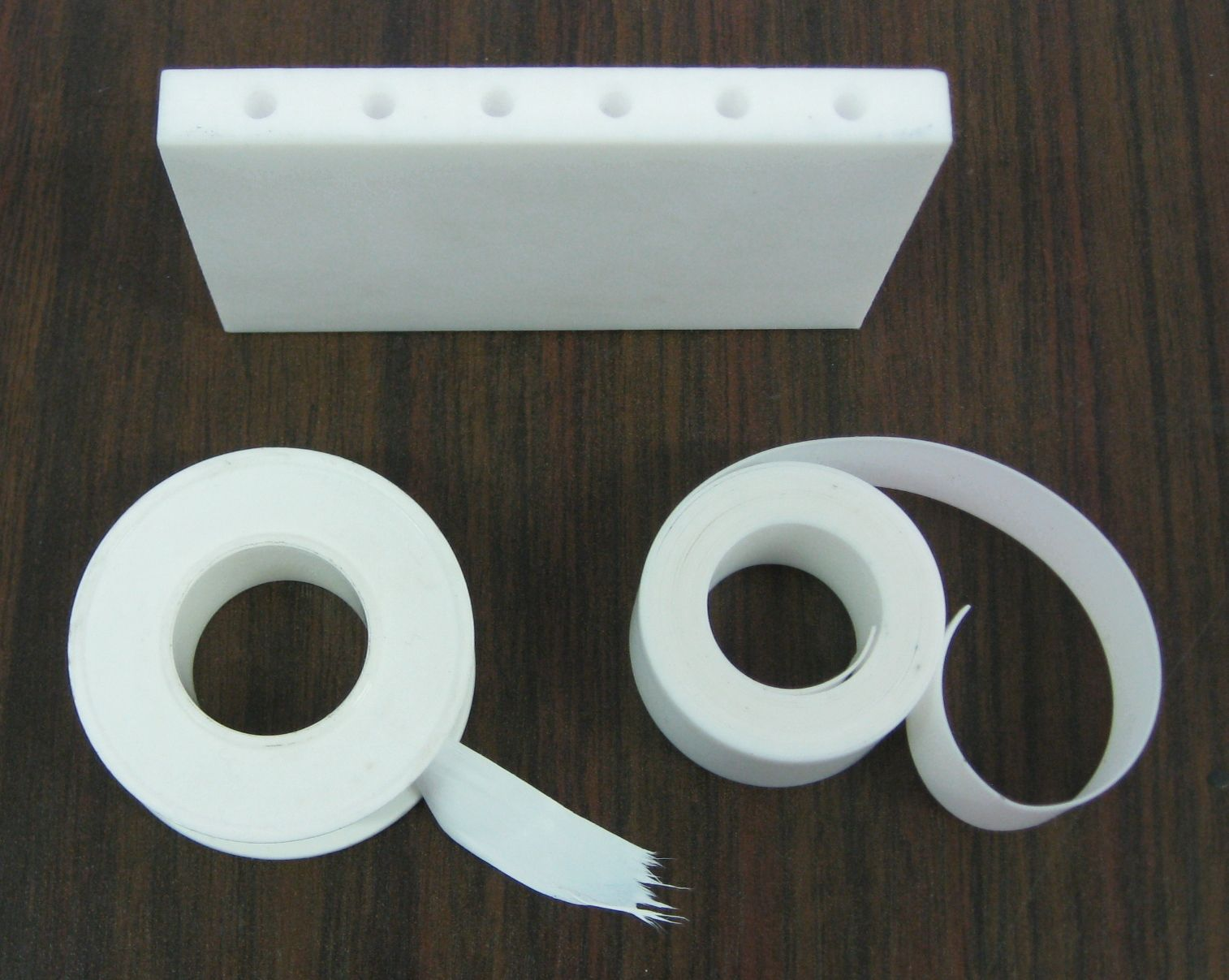 Teflon-PTFE items used in a lab.